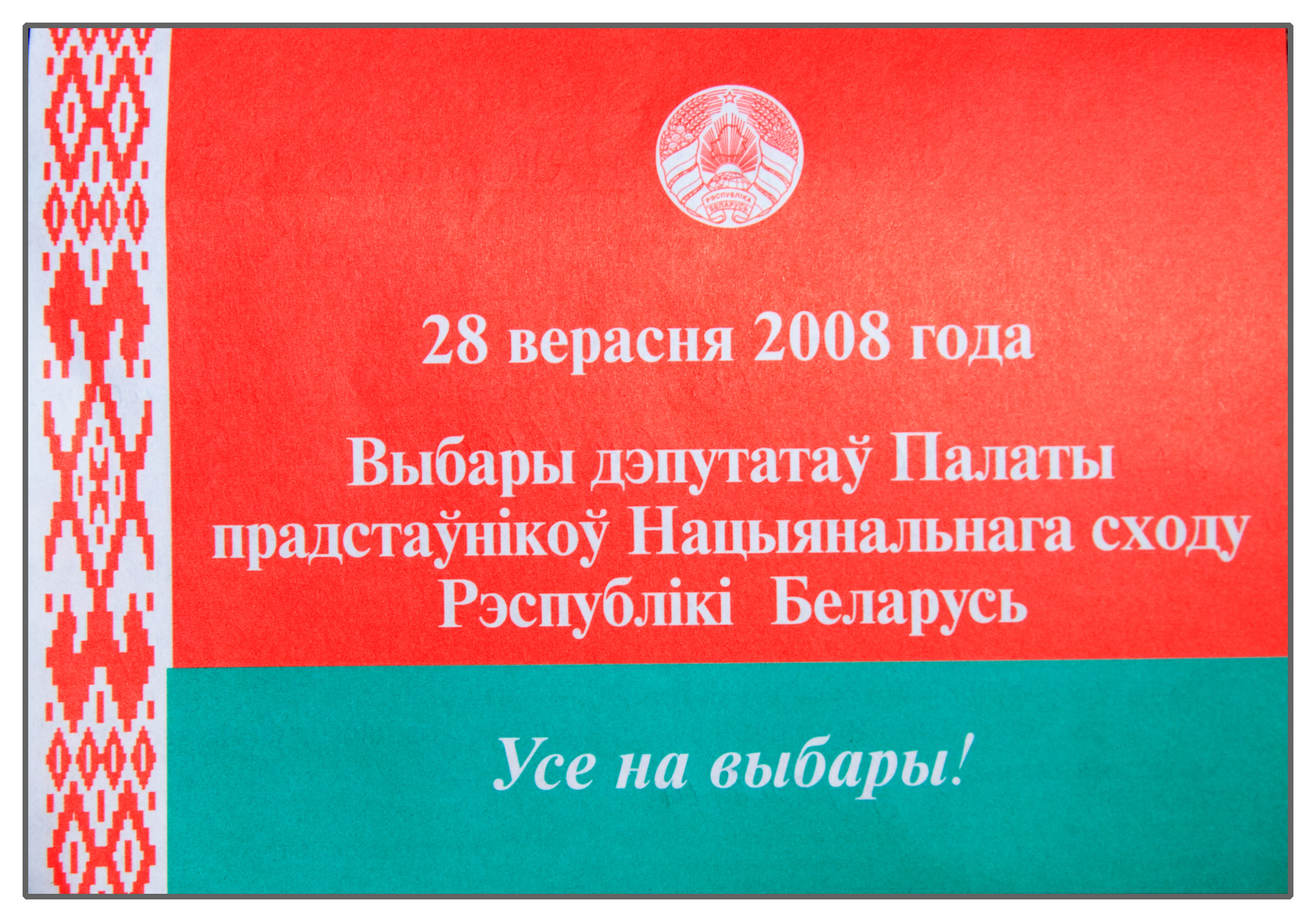 Invitation to Belarussian parliamentary election (Sept. 28, 2008)